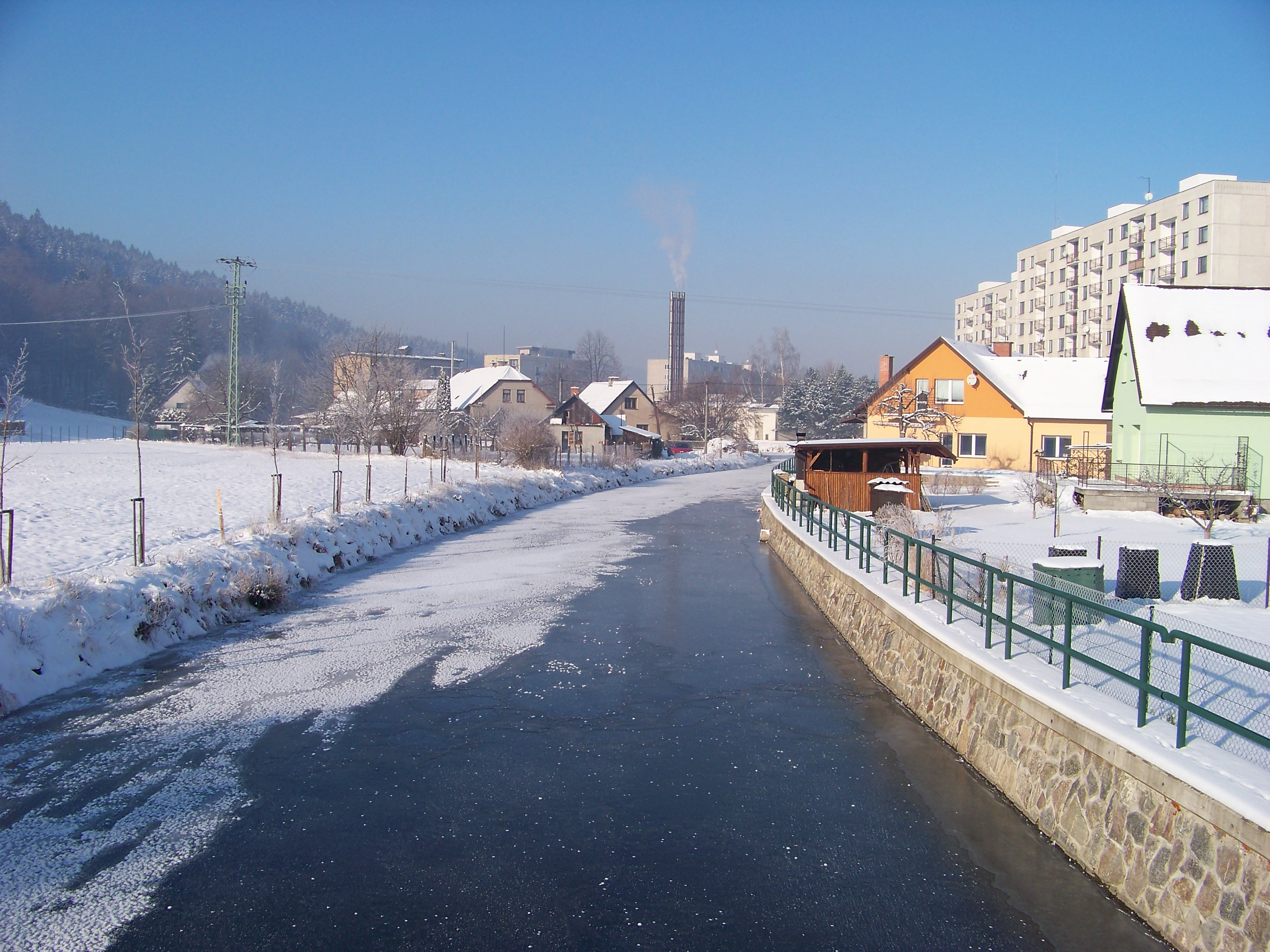 Ústí and Orlicí-Hylváty, Ústí nad Orlicí District, Pardubice Region, the Czech Republic. Frozen Třebovka river. - OpenStreetMap(Info)